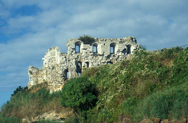 Sandsfoot Castle. One of Henry VIII's coastal forts.